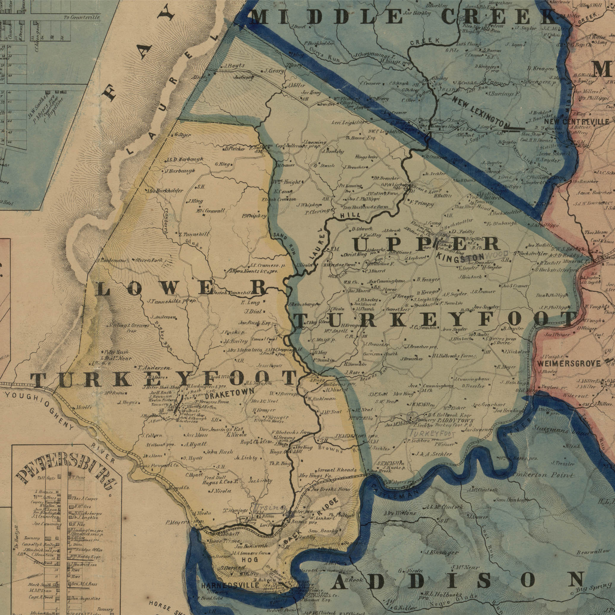 Map of Upper Turkeyfoot & Lower Turkeyfoot Townships, Pennsylvania, taken from 1860 Edward L. Walker map of Somerset County available at the Library of Congress website